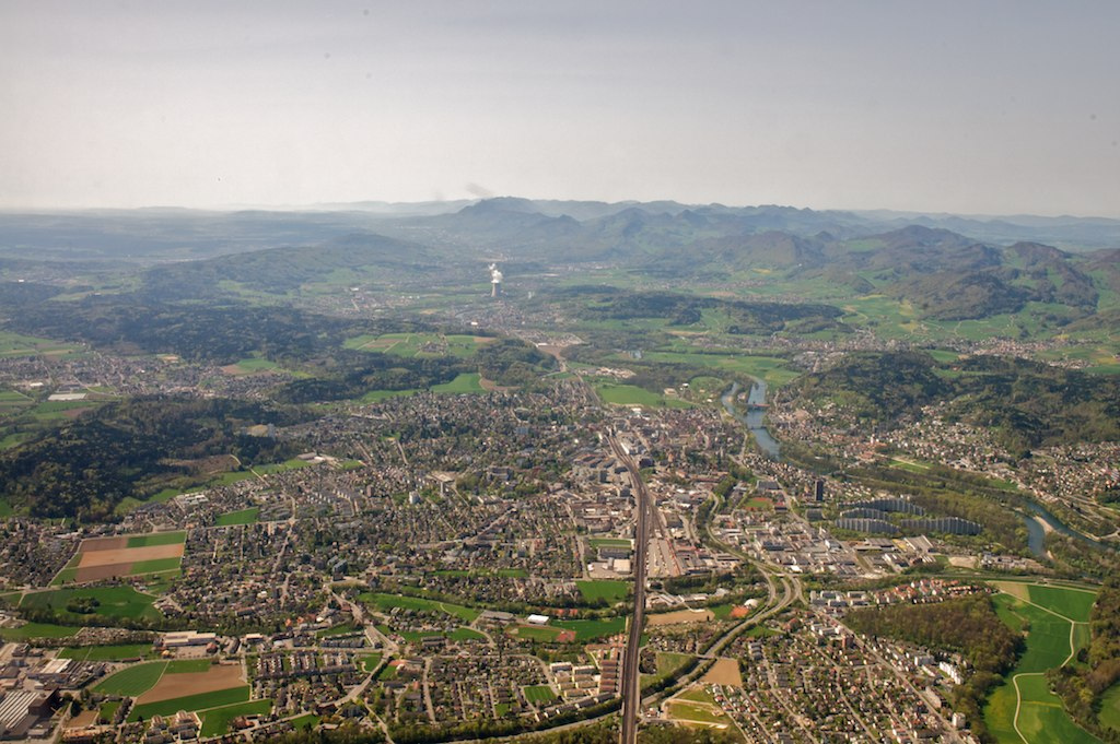 Aerial view of the region of Aarau.